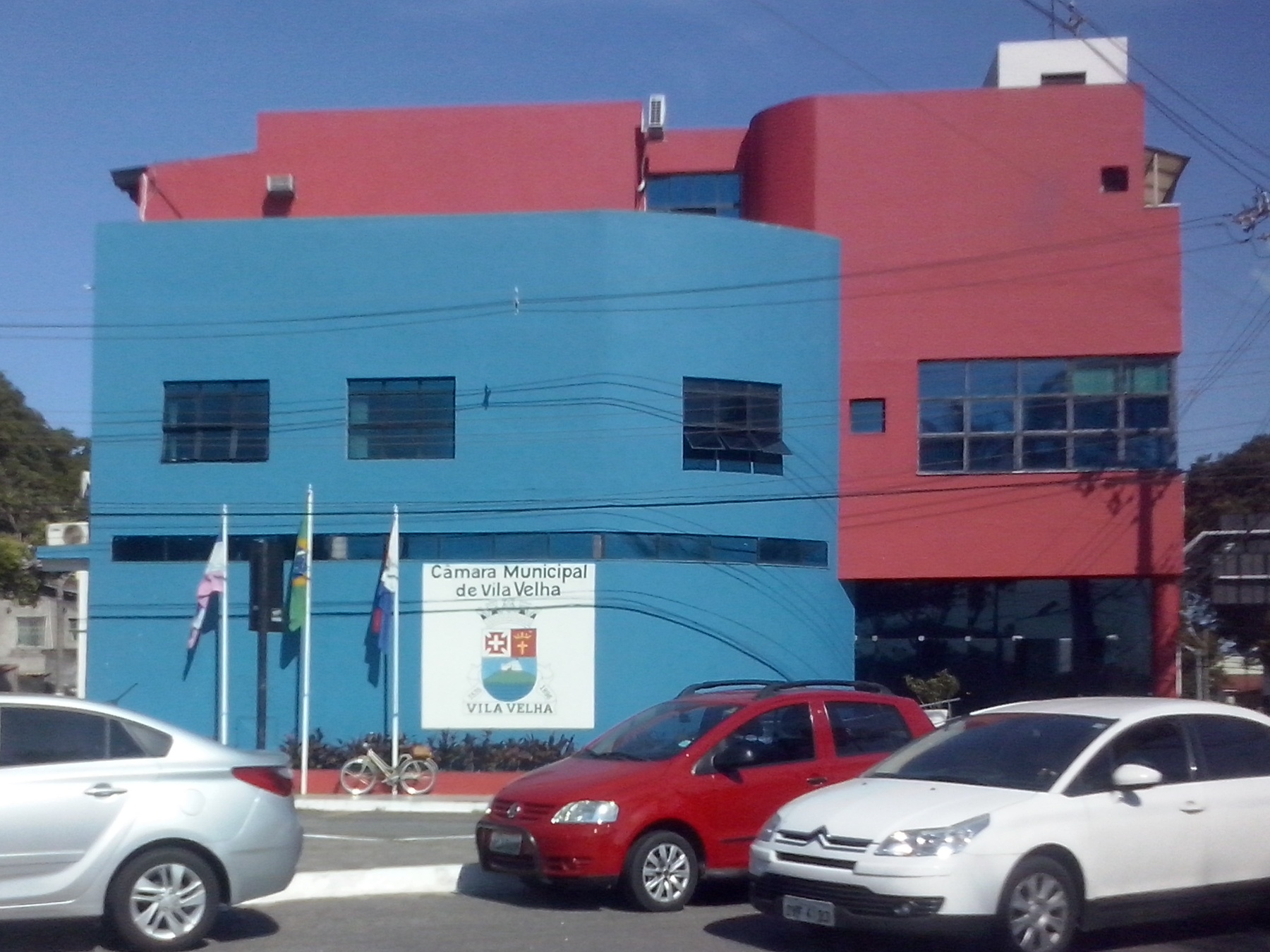 Front of the Municipal Chamber of Vila Velha, Espírito Santo, Brazil.